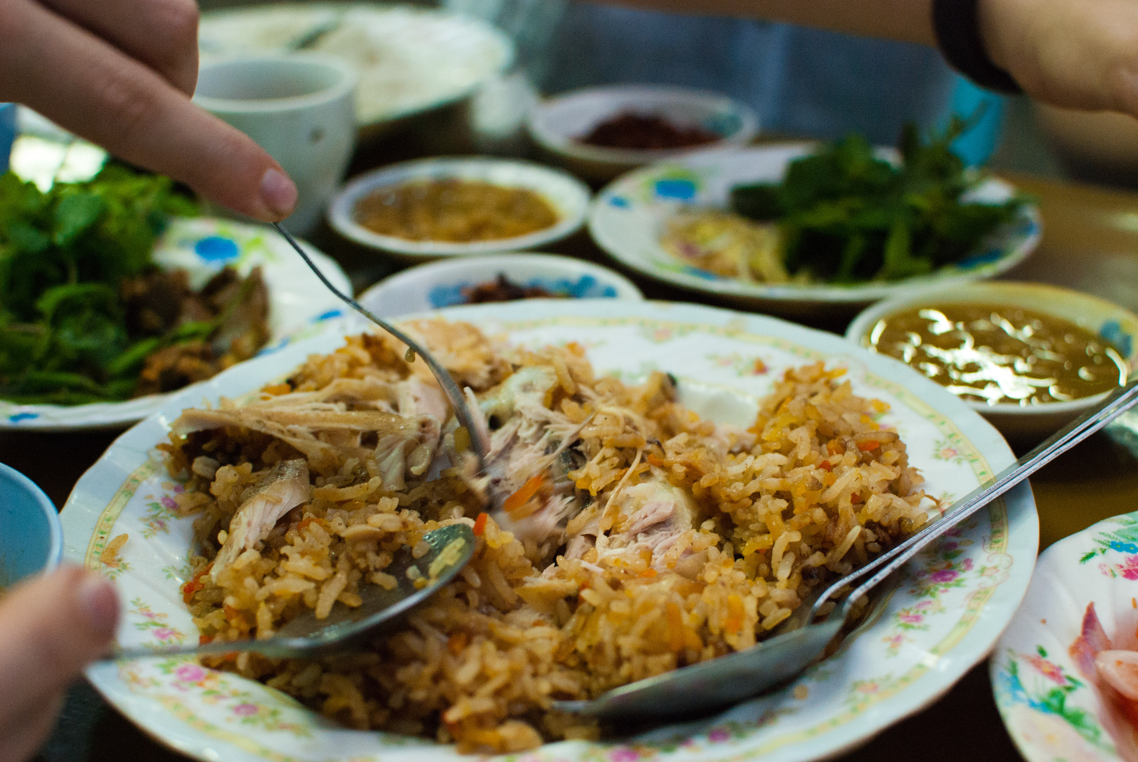 Kyet Shar Soon biryani